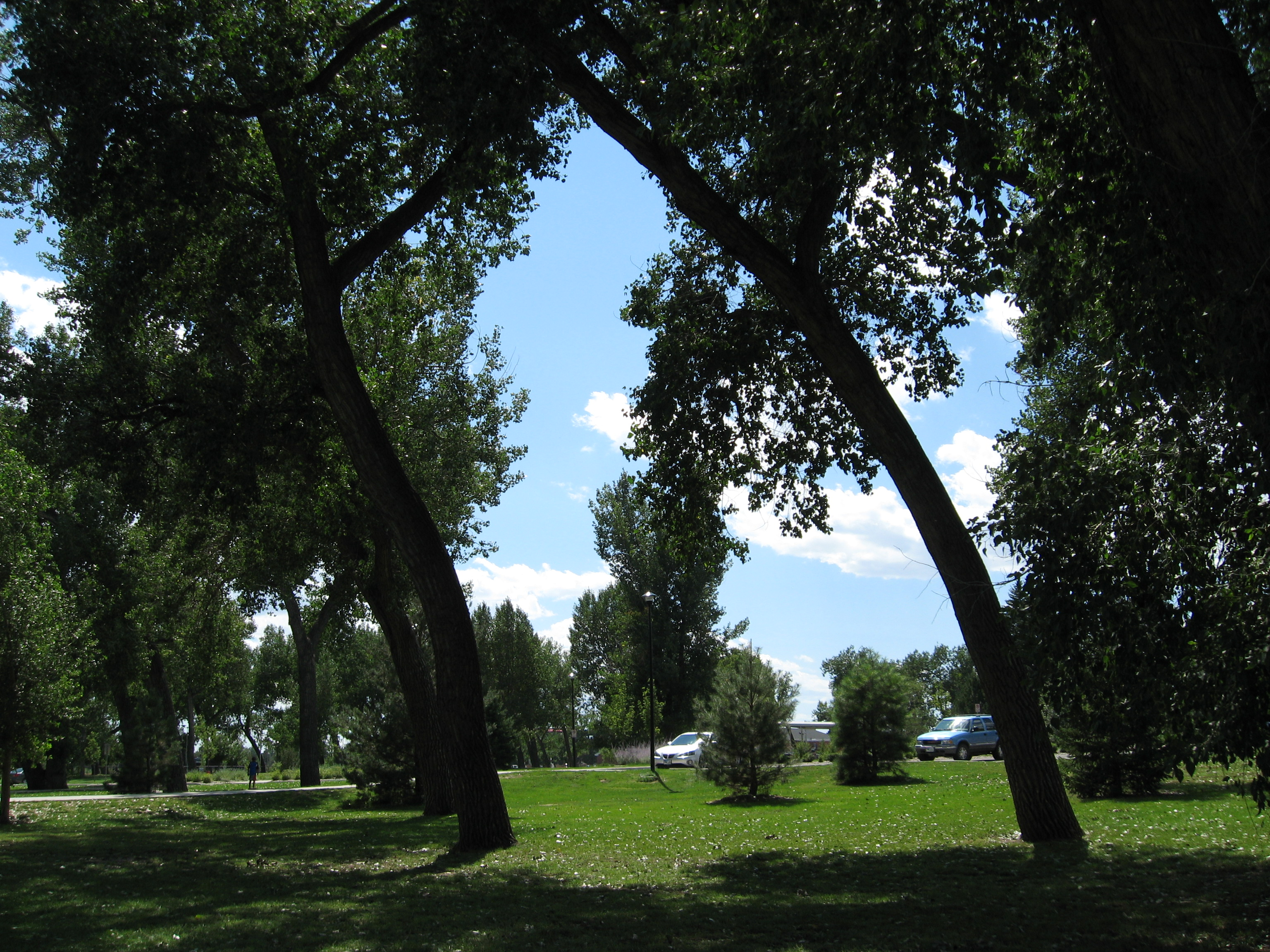 Cottonwood Trees in Lions Park